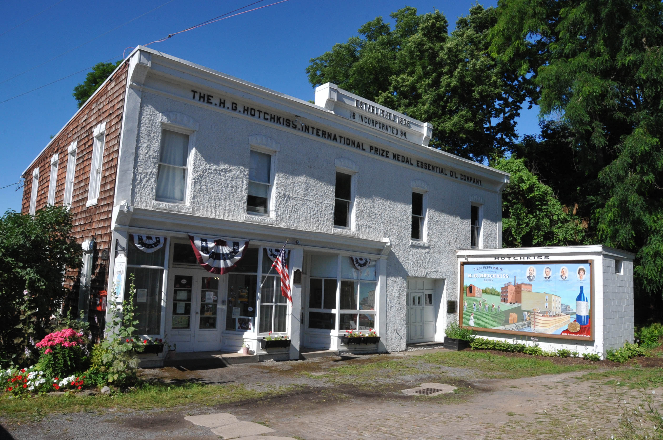 1884 BUILDING RIGHT ALONG THE OLD ERIE CANAL BUILT BY H. G. HOTCHKISS TO PRODUCE ESSENTIAL OILS, PRINCIPALLY PEPPERMINT OIL USED IN PATENT MEDICINES